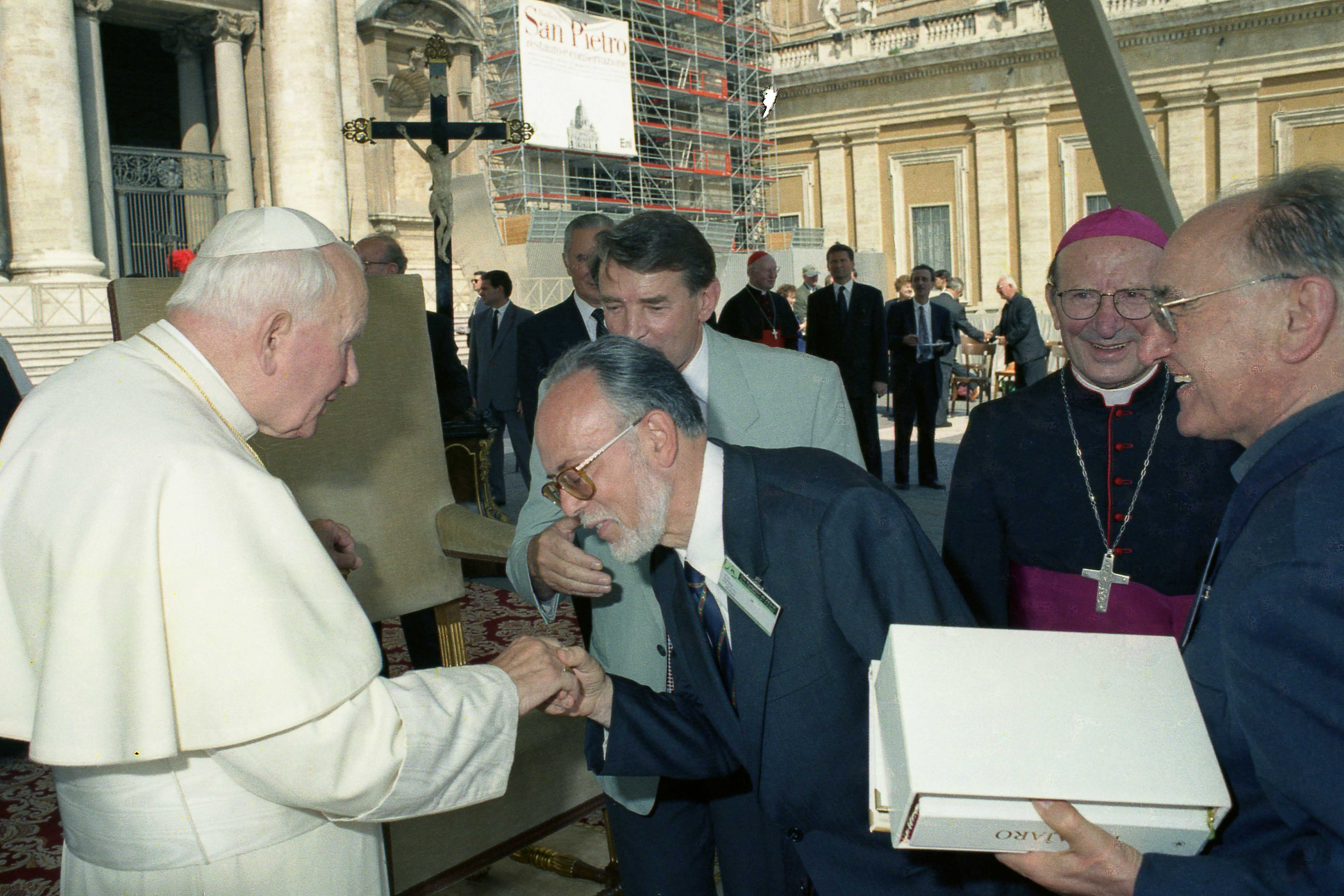 Pope John Paul II takes over the Esperanto Missal and Lectionary from IKUE.